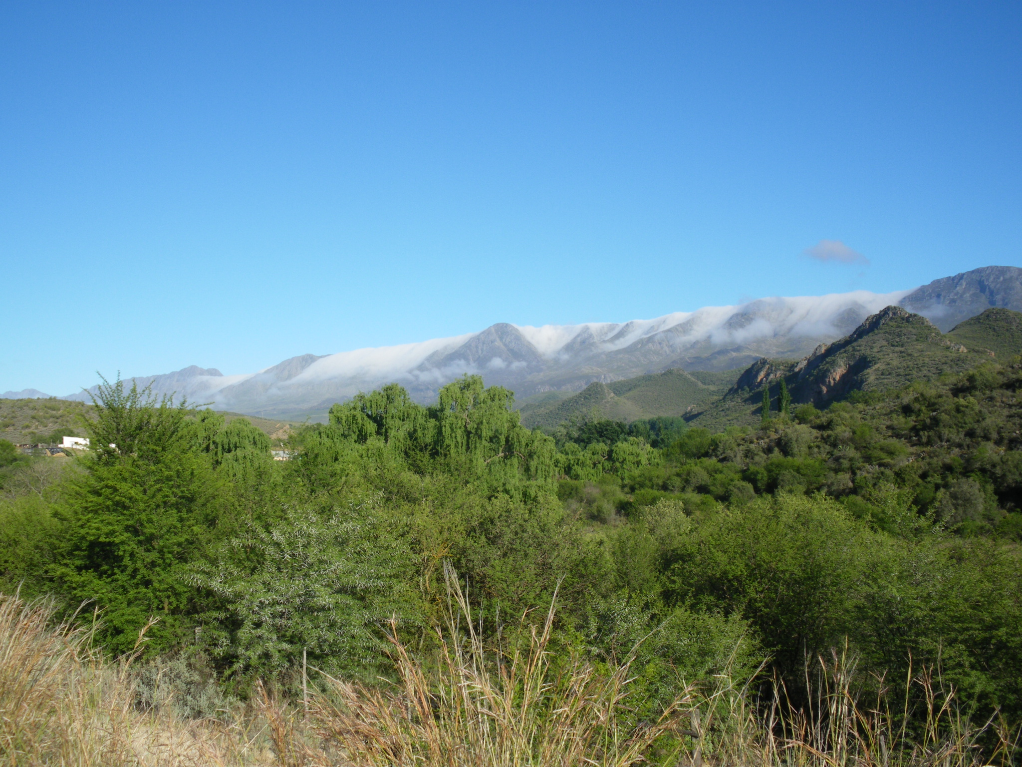 Swartberg, Western Cape Province, South Africa. Swartberg Pass in front